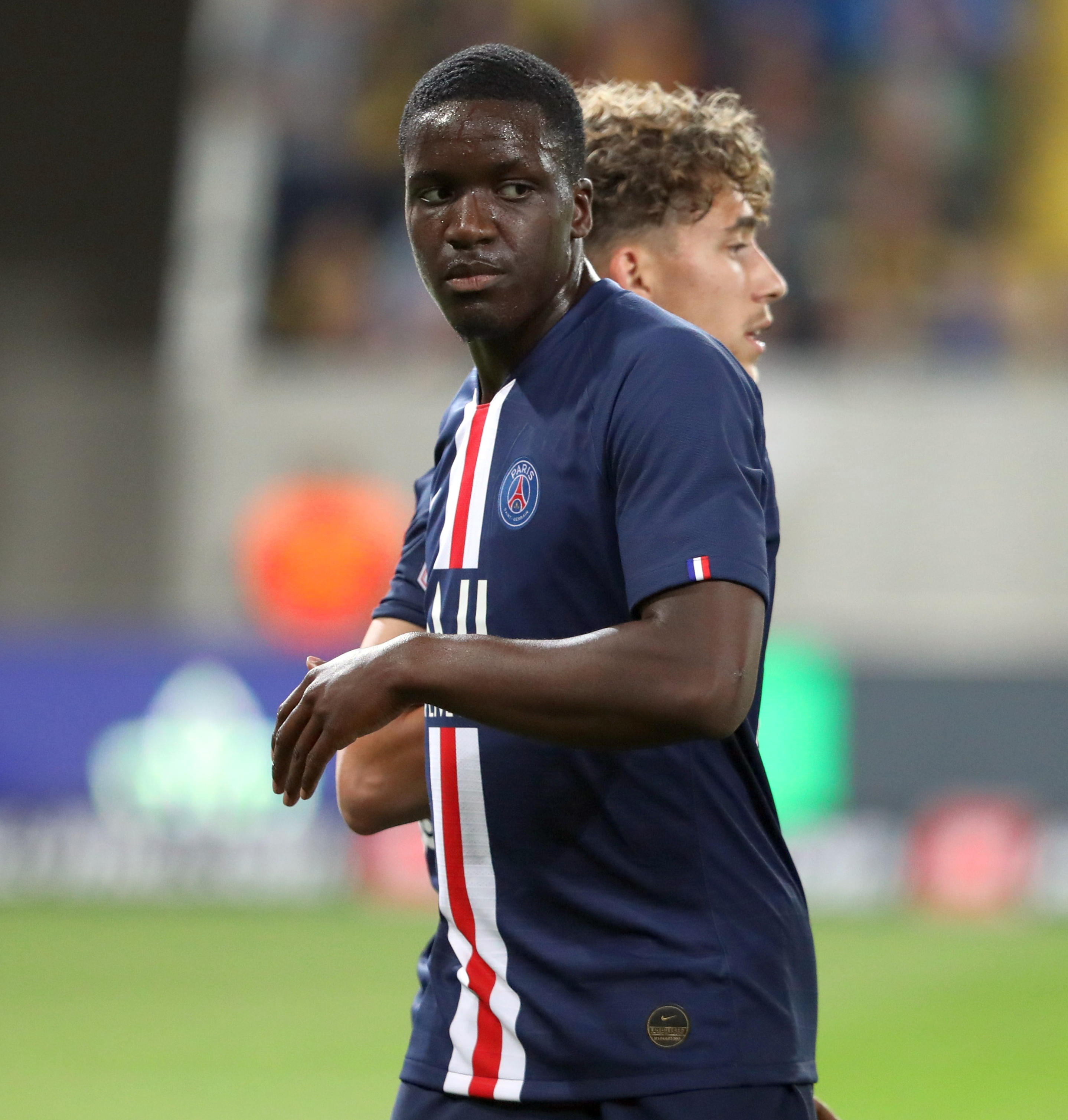 Test game, 17th July 2019: SG Dynamo Dresden vs. Paris Saint-Germain 1:6 (0:3)